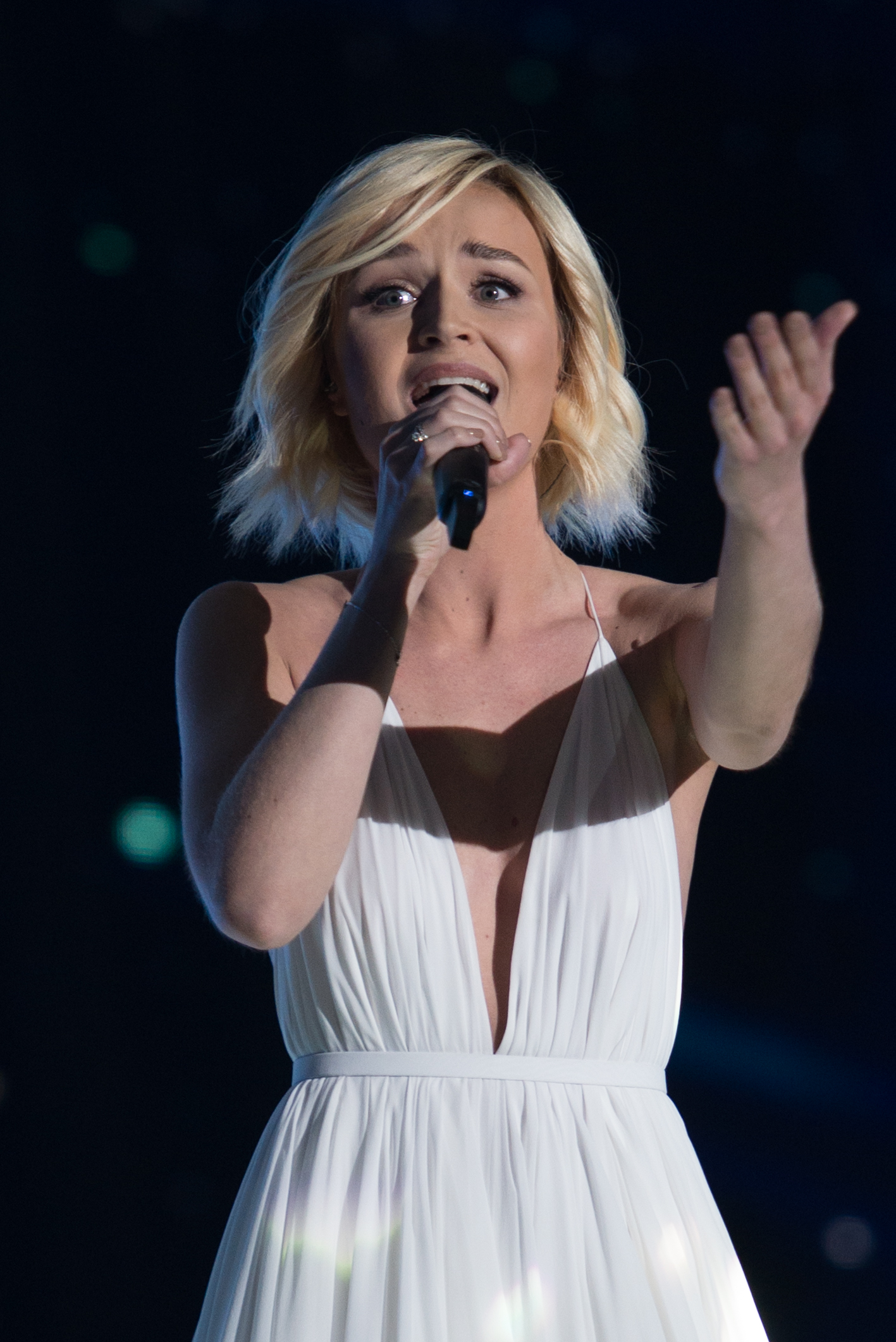 Eurovision Song Contest Vienna 2015: Polina Gagarina